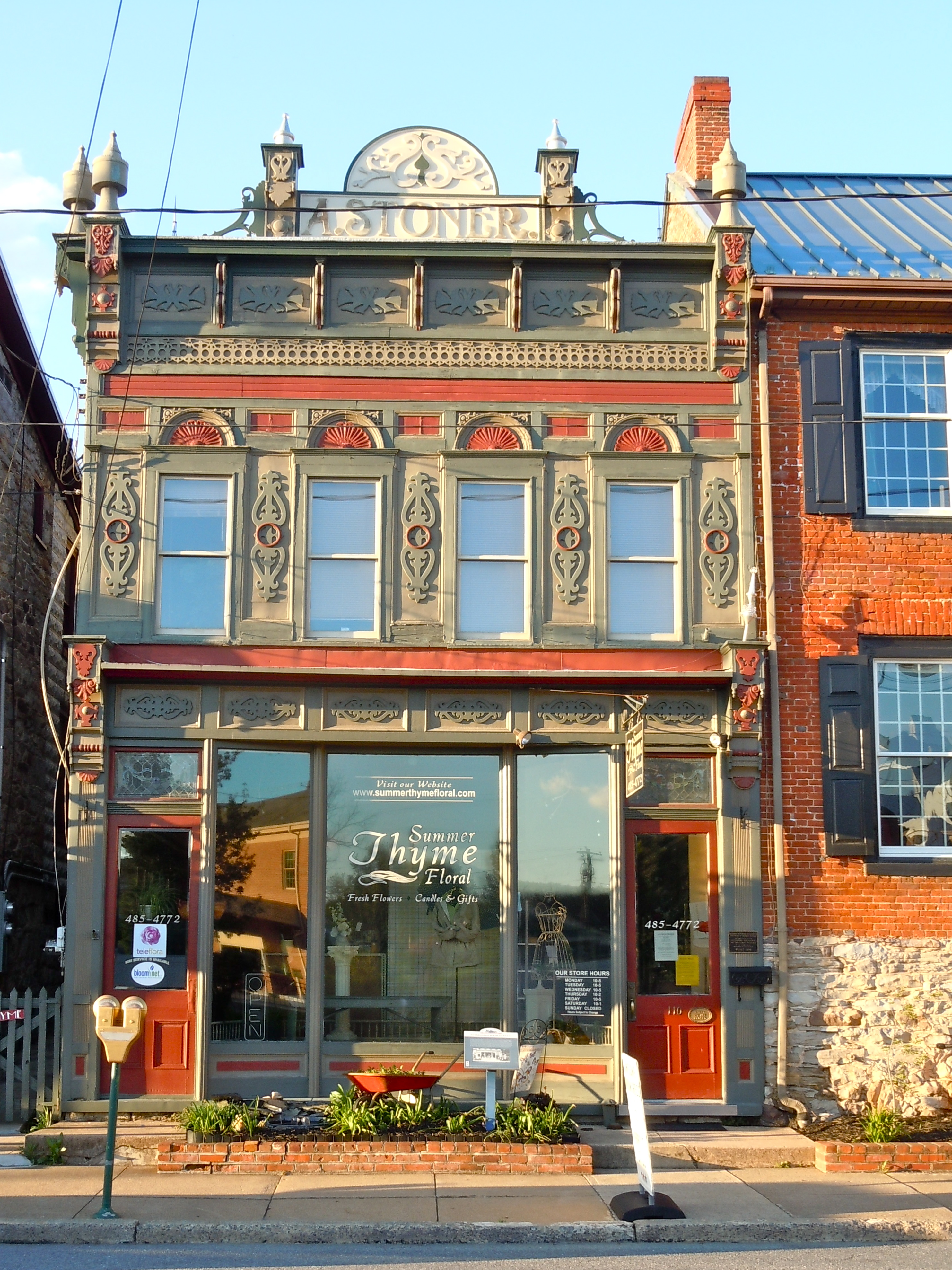 Stoners Store, part of the McConnellsburg Historic District on the NRHP since August 9, 1993. The historic district goes roughly along Lincoln Way from 1st Street to 5th Avenue and 2nd Street from Spruce Street to Maple Street.